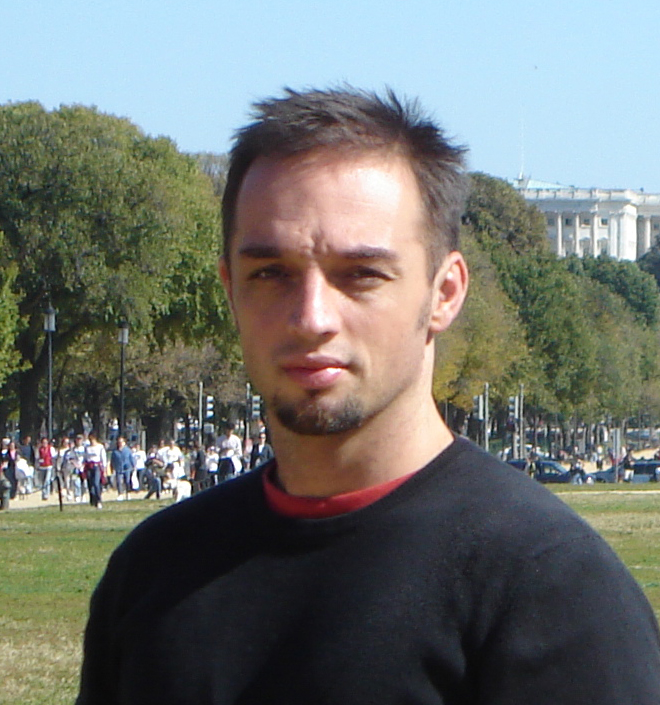 Comic book writer and artist Phil Jimenez.